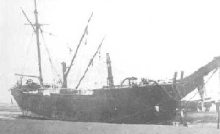 The barque Mexico wrecked at Southport on 9 December 1886